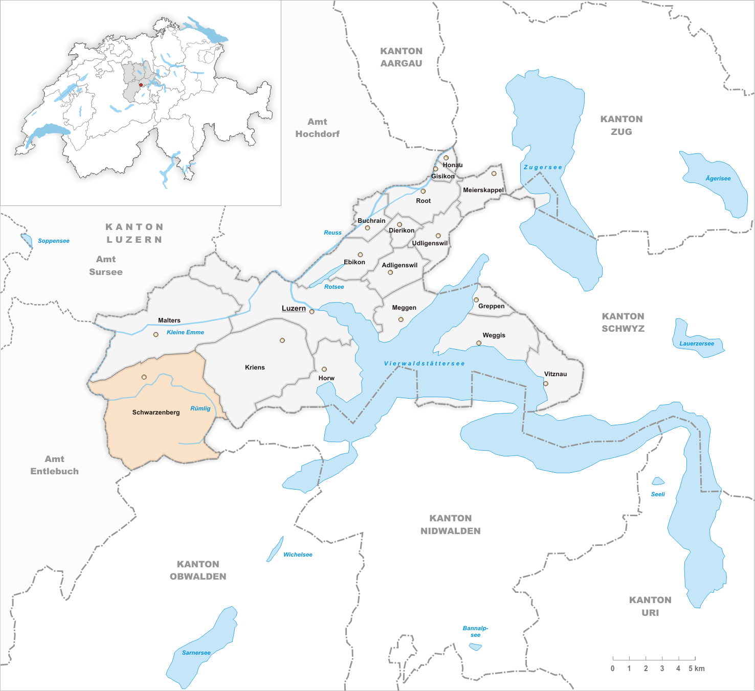 Municipality Schwarzenberg